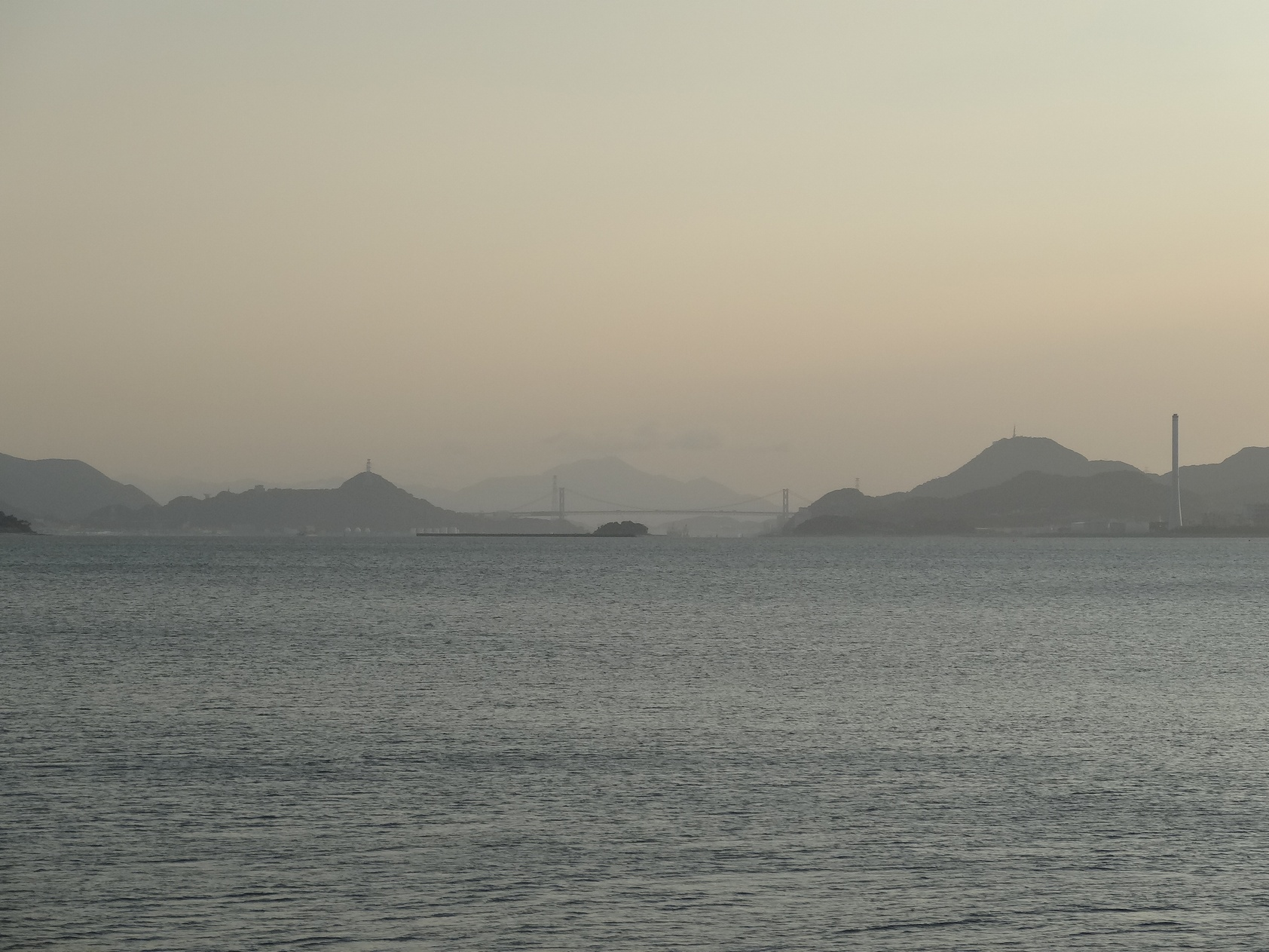 Kanmon Straits from Habu, Sanyo-Onoda City, Yamaguchi Prefecture, Japan.